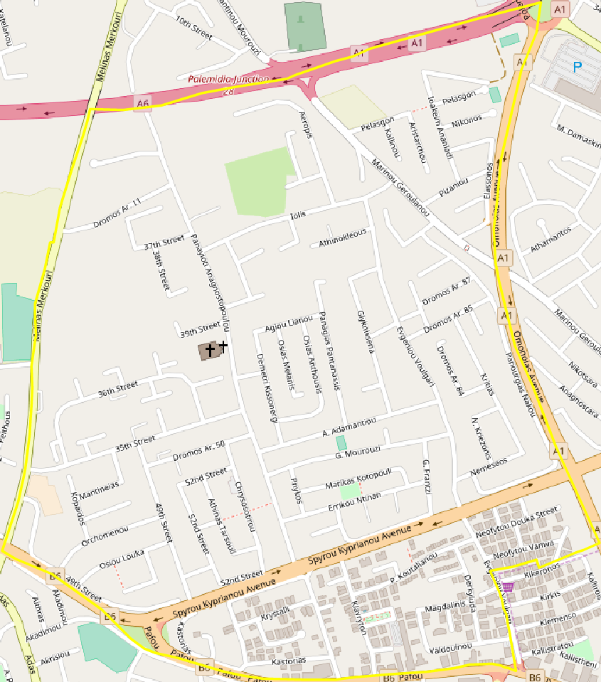 Map of Apostle Barnabas (Kato Polemidia).